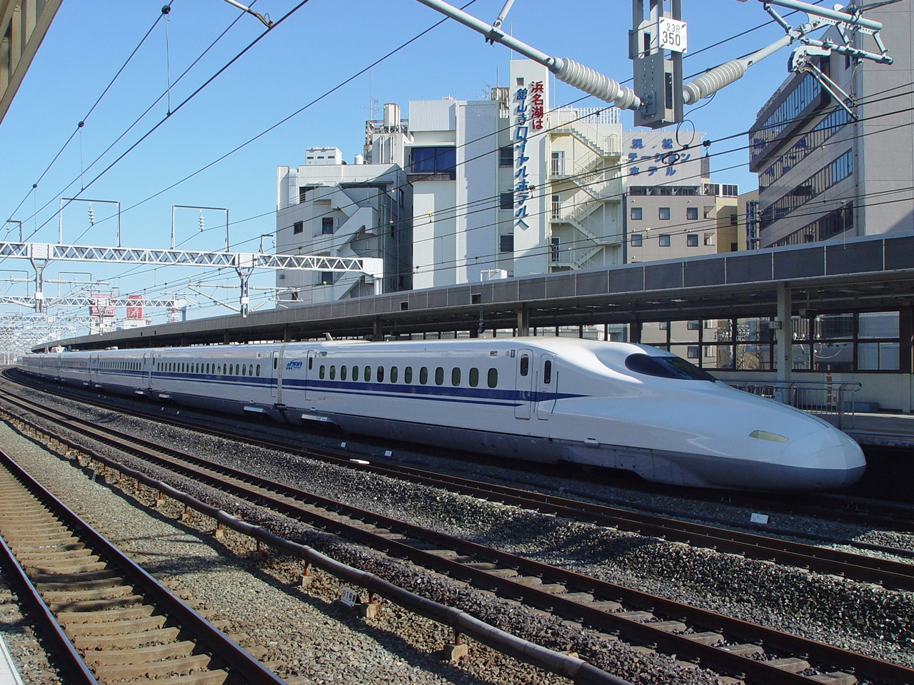 JR Central prototype N700 series shinkansen set Z0 at Hamamatsu Station on a test run (train number 7881A)